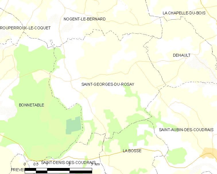 Map of French municipality